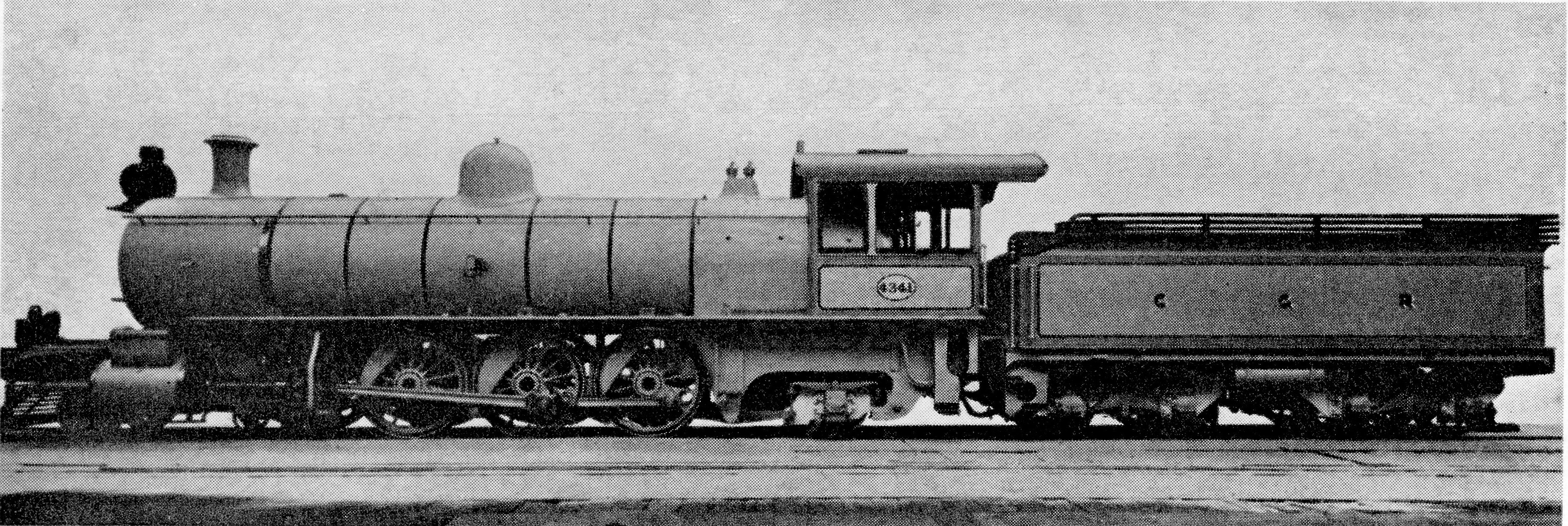 SAR Class Exp 5 948 (2-8-2), ex CGR Mikado 840, Kitson Works no 4341